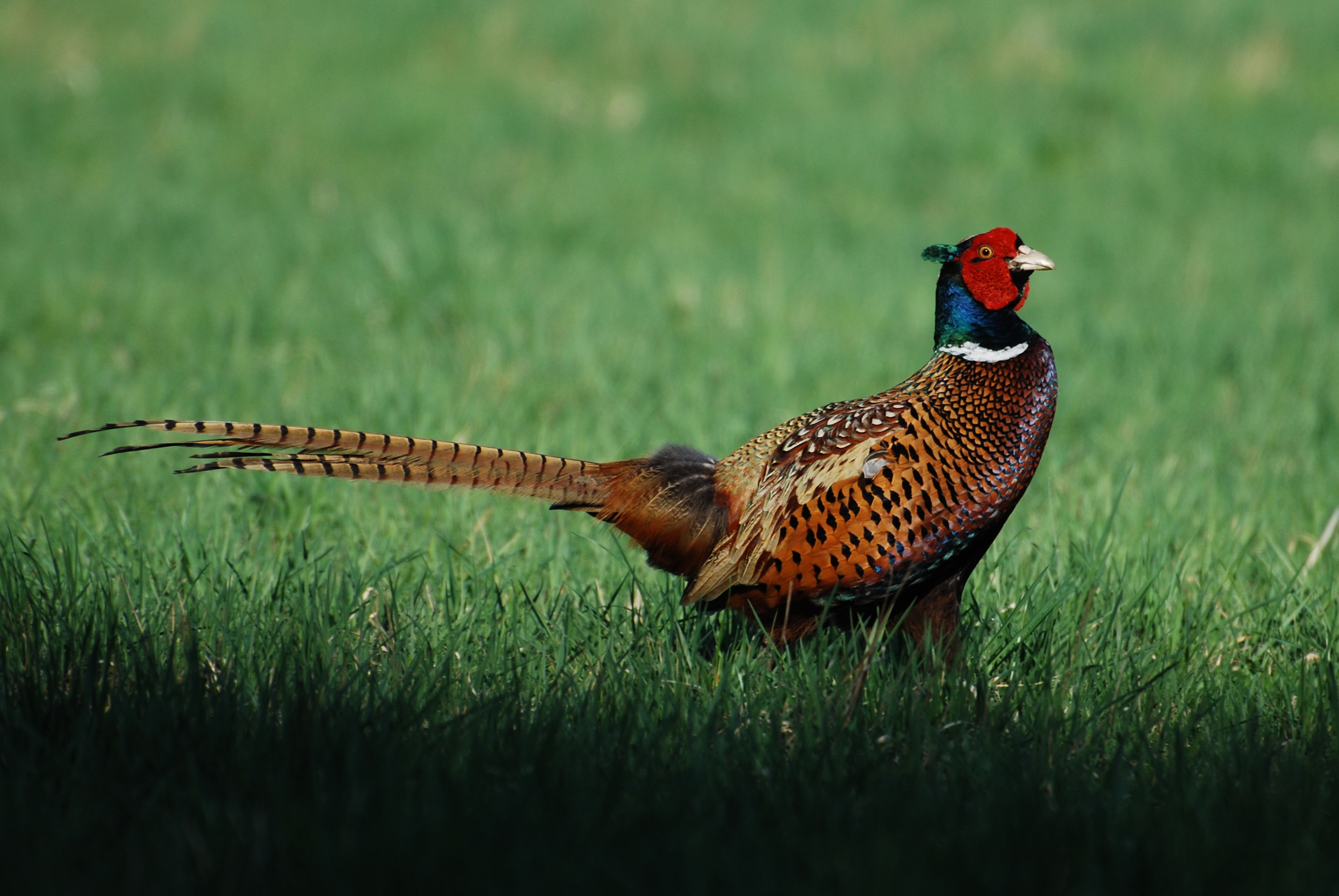 Common Pheasant (Phasianus colchicus)